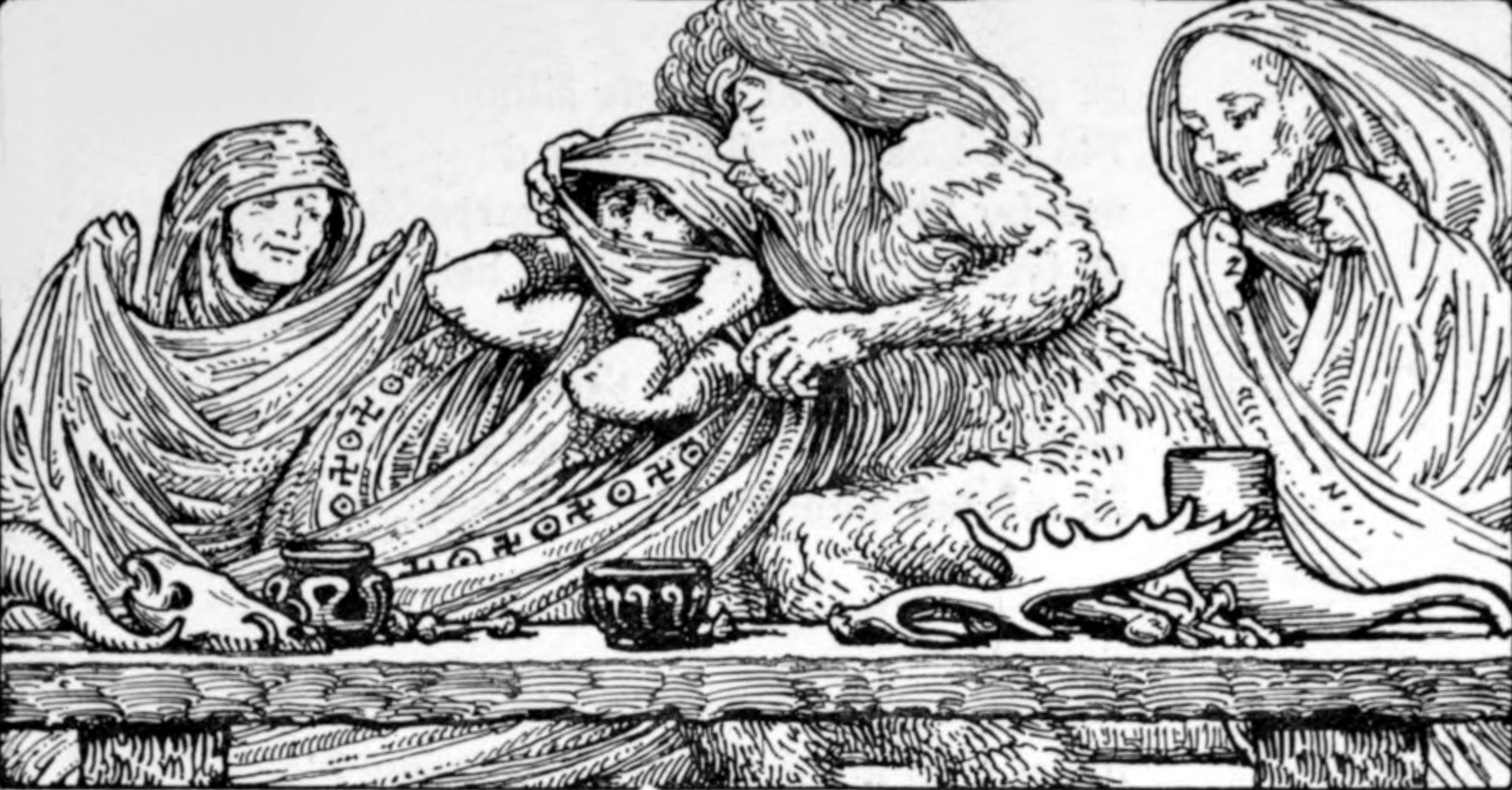 Illustration to Þrymskviða. The list of illustrations in the front matter of the book gives this one the title Thrym's Wedding-feast.